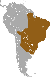 Six-banded Armadillo (Euphractus sexcinctus) range